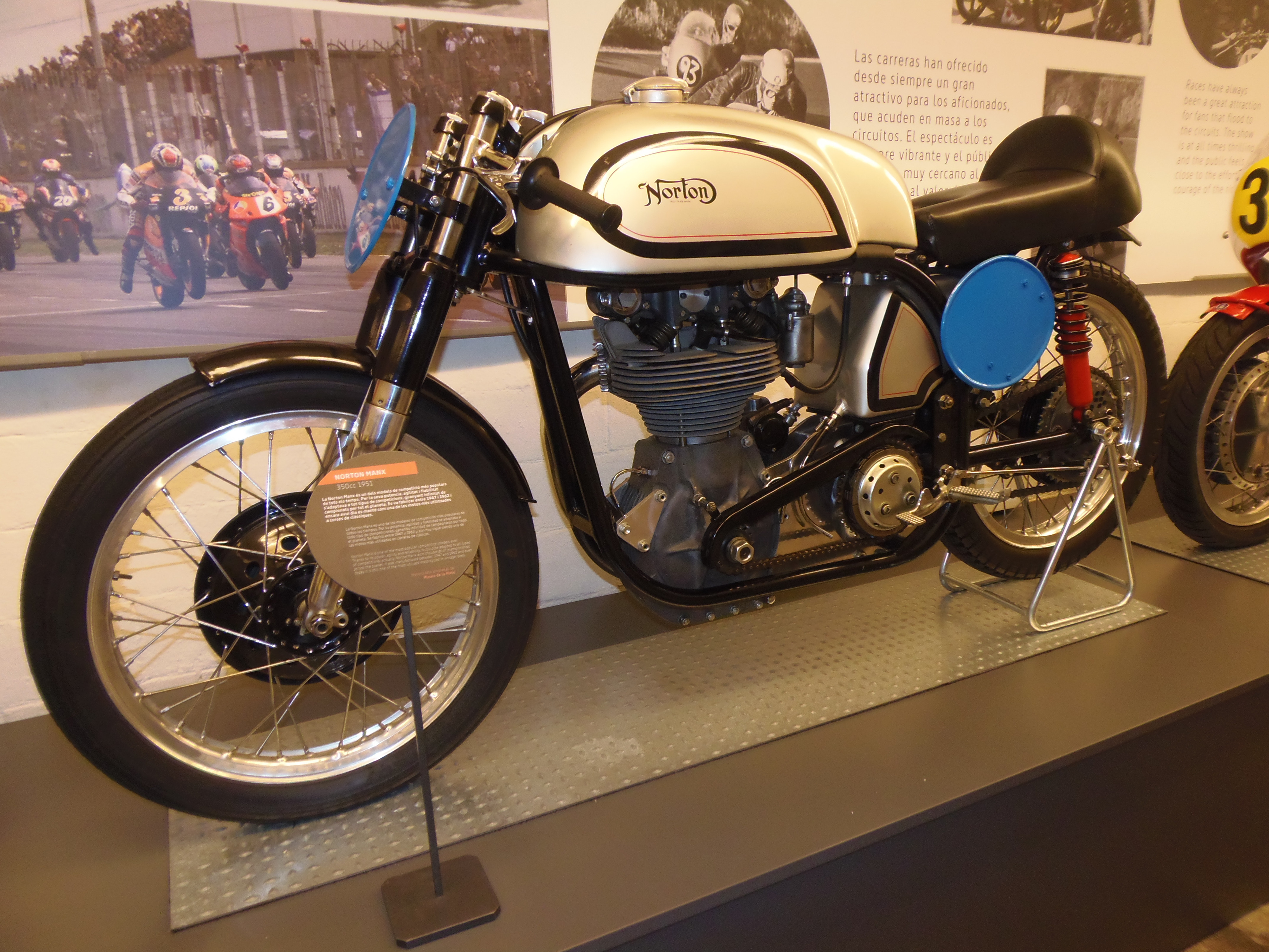 Norton Manx 350 (1951). This unit belonged to Paco González.